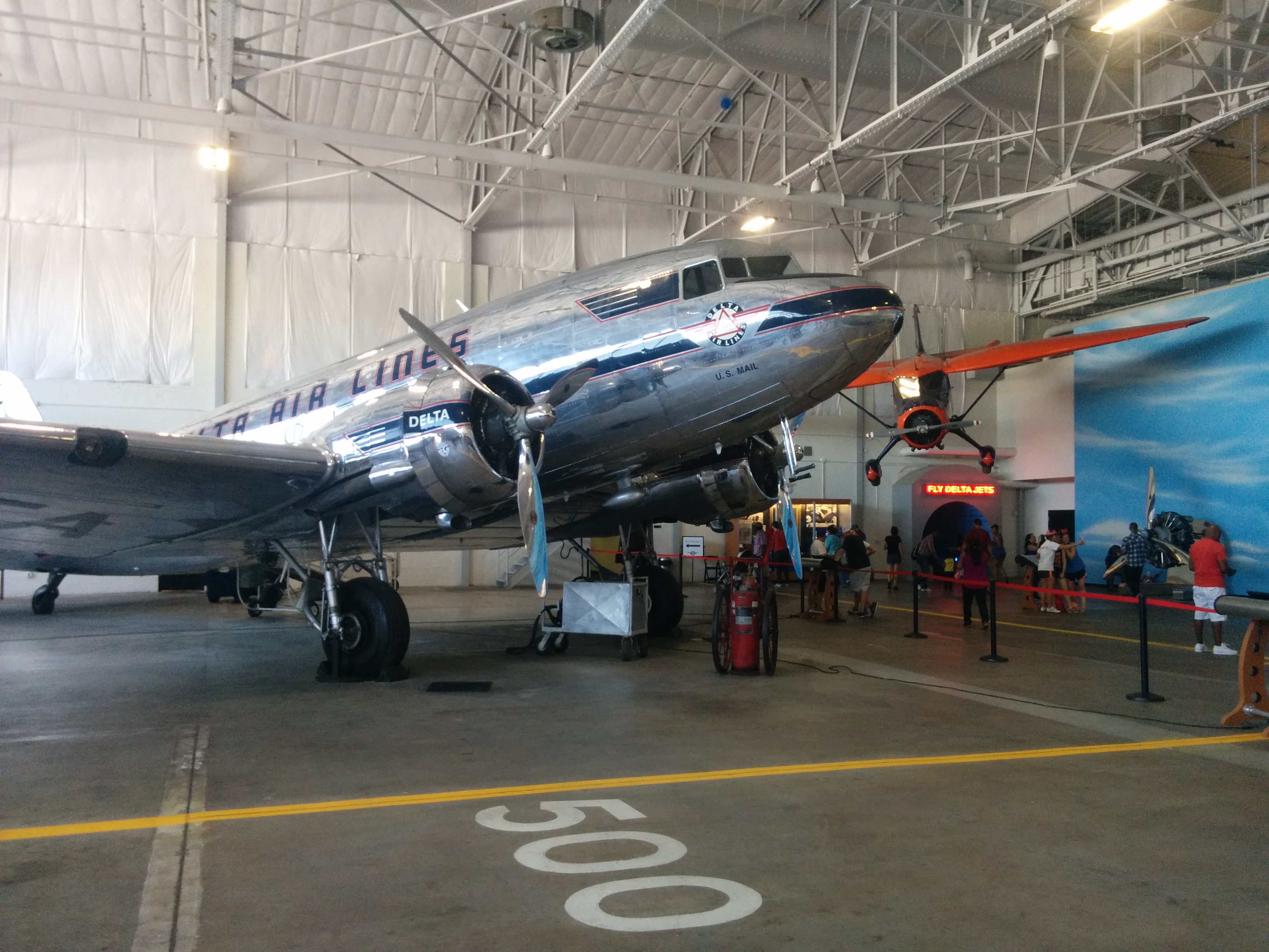 Delta Ship 41, a DC-3 built in 1940 and restored between 1995 and 1999 in the Delta Airlines Museum's Historic Hangar One during the 2016 Delta Employee Block Party.